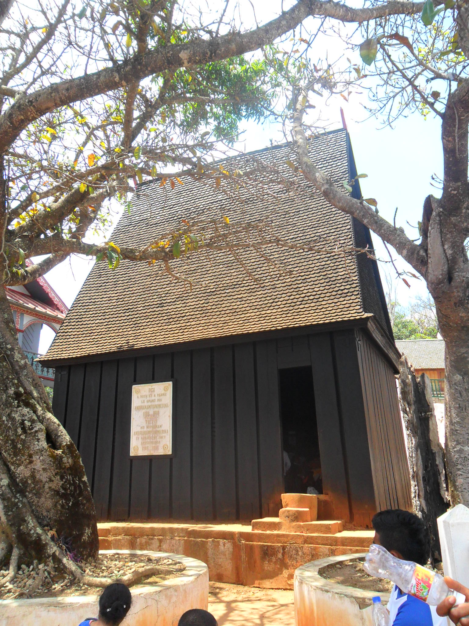 Mahandrihono, palais du Roi Andrianampoinimerina, dans l'enceinte royale de la colline sacrée d'Ambohimanga